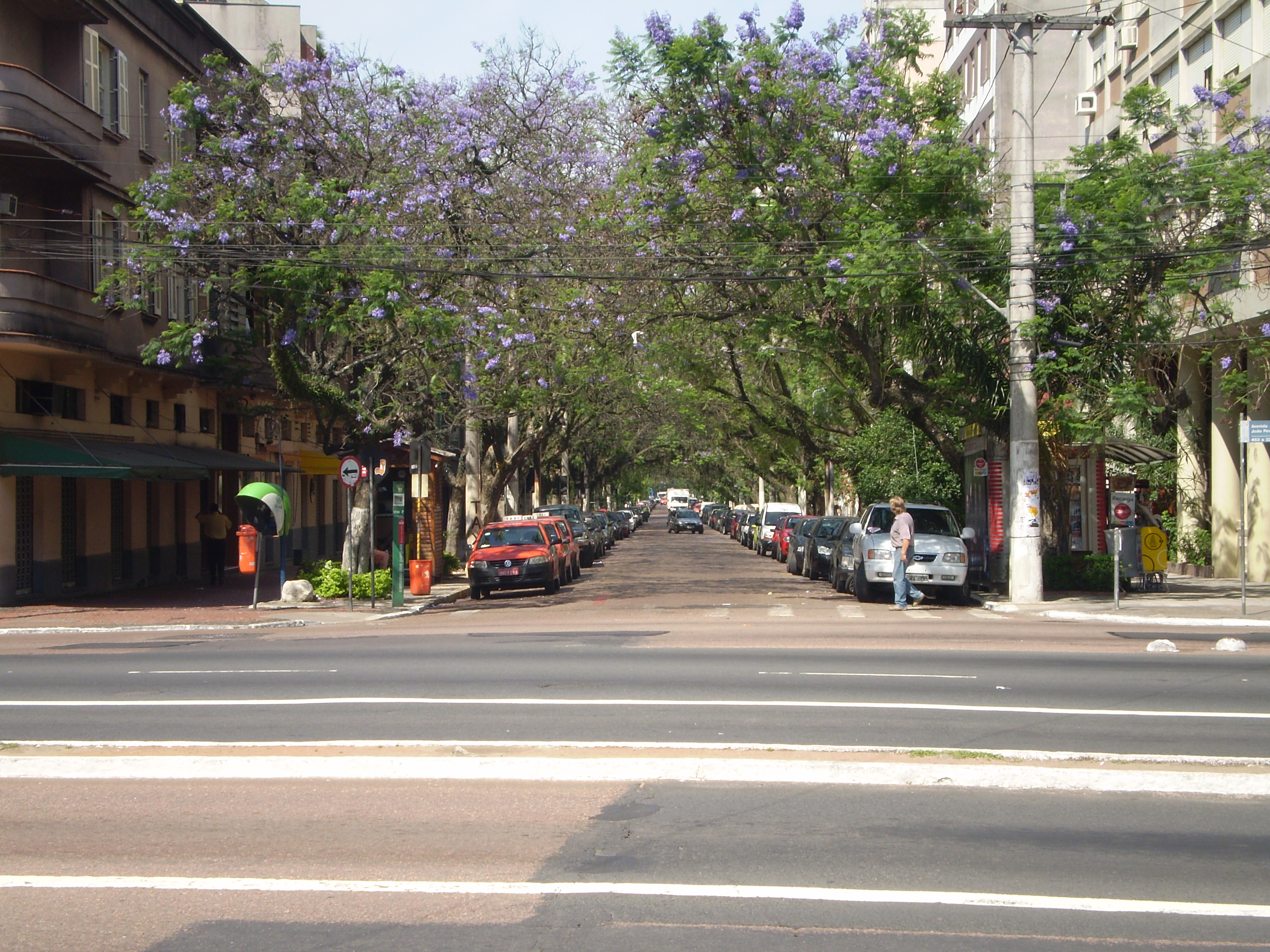 View east-west of the República street from João Pessoa avenue, Porto Alegre.